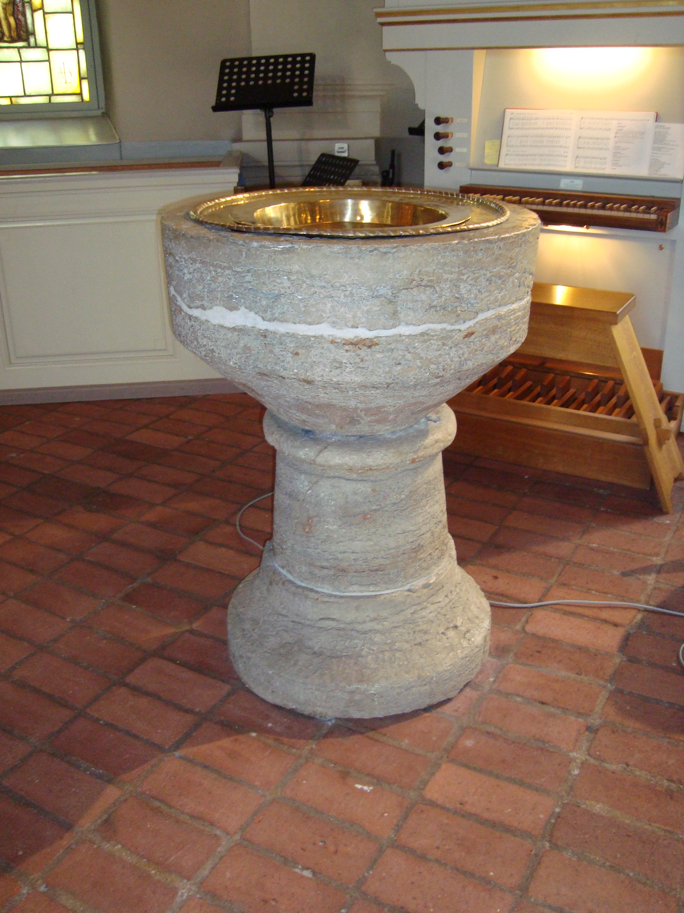 Baptismal font in Church of By, Avesta municipality, Sweden